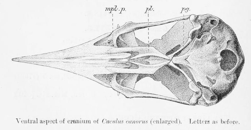 Skull of a Cuculus canorus